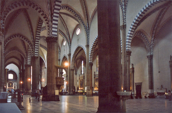 Santa Maria Novella, interior. Florence